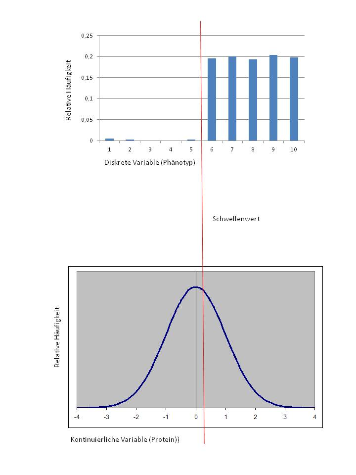 Schwellenwerteffekt